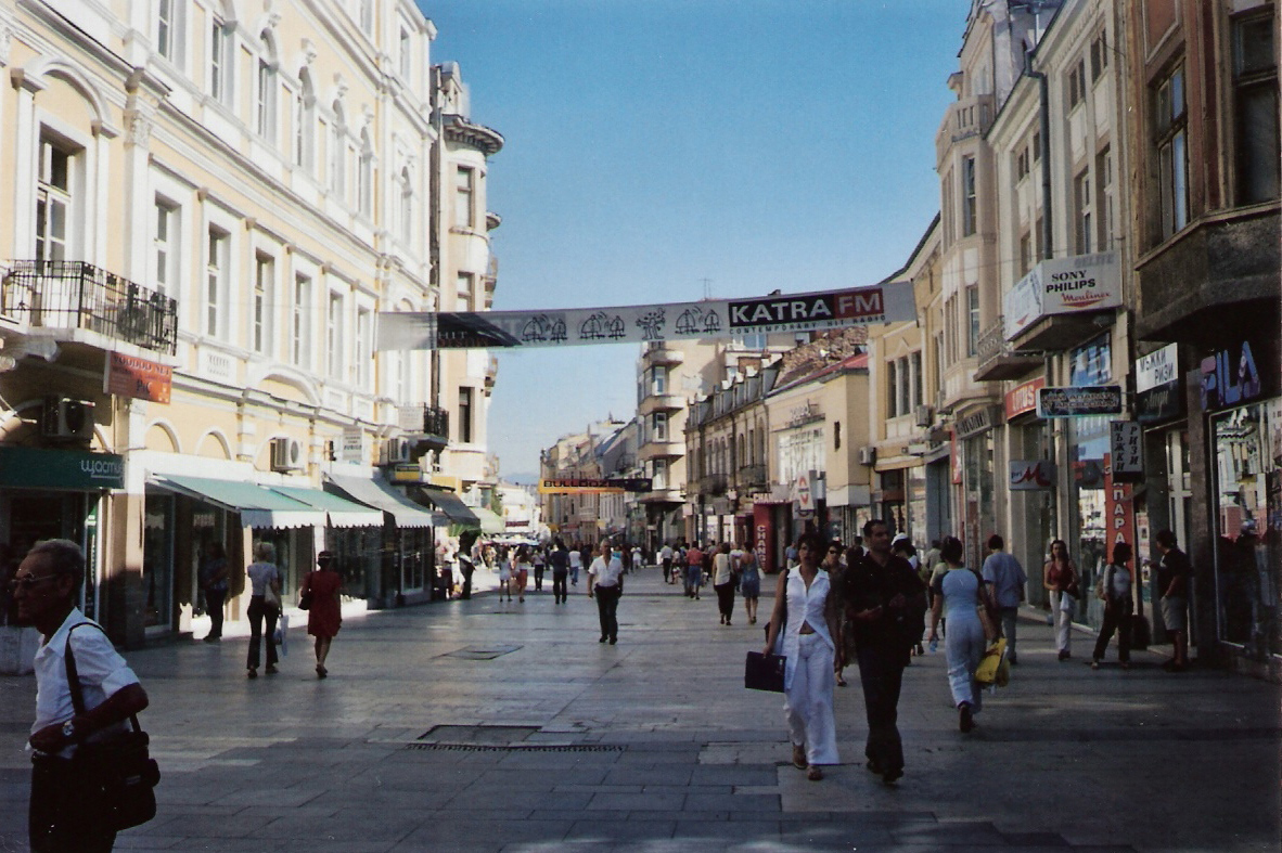 main pedestrian street in plovdiv